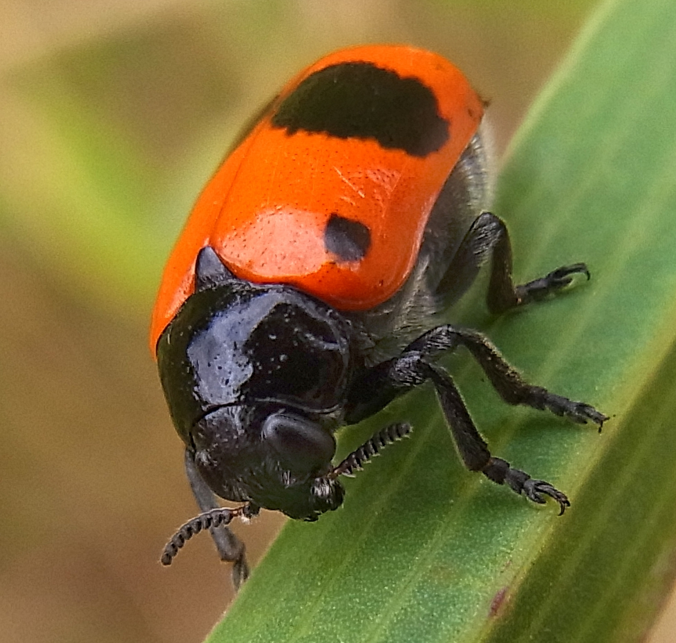 Clytra laeviuscula from Hungary, Zemplen-mountains near Basco